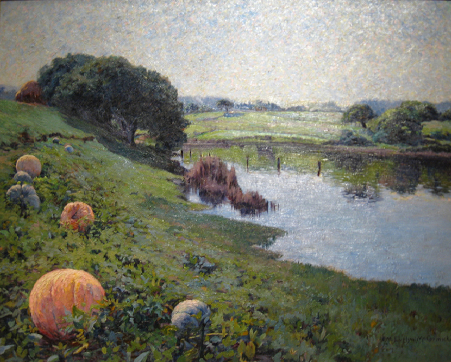 Evelyn McCormick (United States, California, Placerville, 1869 - 1948) Carmel Valley Pumpkins, circa 1907 Painting, Oil on canvas, 32 x 39 in. (81.28 x 99.06 cm) Purchased with funds provided by Robert and Kelly Day (AC1996.131.1) Wikipedia Loves Art at the Los Angeles County Museum of Art This photo of item # AC1996.131.1 at the Los Angeles County Museum of Art was contributed under the team name "Team_A" as part of the Wikipedia Loves Art project in February 2009. Los Angeles County Museum of Art The original photograph on Flickr was taken by doncram—please add a comment to the original Flickr page whenever a use has been made on Wikipedia or another project. Project galleries on Flickr: this institution, this team Evelyn McCormick (United States, California, Placerville, 1869 - 1948) Carmel Valley Pumpkins, circa 1907 Painting, Oil on canvas, 32 x 39 in. (81.28 x 99.06 cm) Purchased with funds provided by Robert and Kelly Day (AC1996.131.1) Wikipedia Loves Art at the Los Angeles County Museum of Art This photo of item # AC1996.131.1 at the Los Angeles County Museum of Art was contributed under the team name "Team_A" as part of the Wikipedia Loves Art project in February 2009. Los Angeles County Museum of Art The original photograph on Flickr was taken by doncram—please add a comment to the original Flickr page whenever a use has been made on Wikipedia or another project. Project galleries on Flickr: this institution, this team